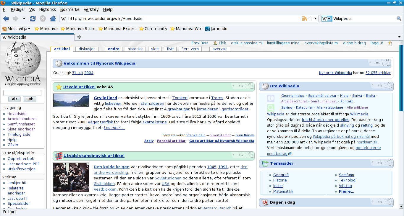 Mozilla Firefox version 3.5.5 displaying the Nynorsk (nn) Wikipedia Main Page on Mandriva Linux 2010.0.